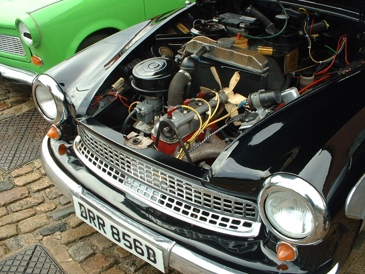 Handsome Two-stroke Saloon, circa 1964. Spotted at Crich Tramway Museum's Red Oktober Day in 2007.